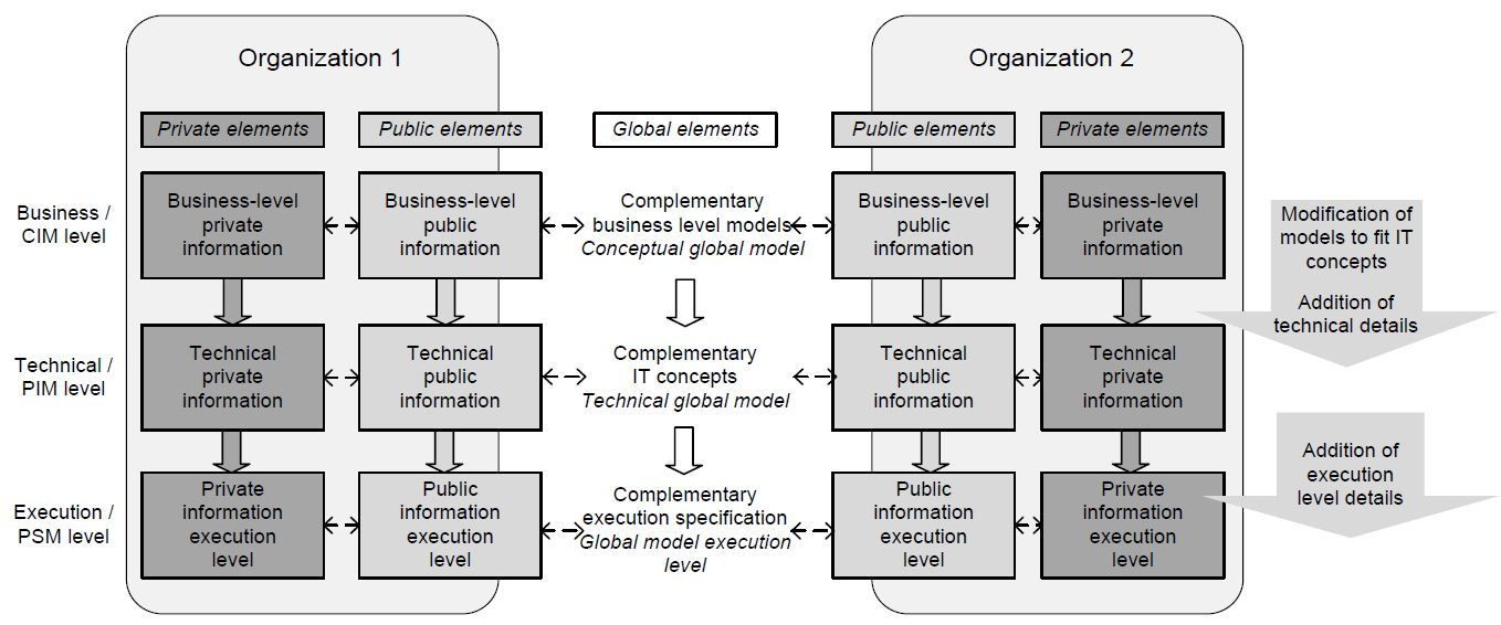 Ilustration of the Architecture of Interoperable Information Systems / Levels of technical granularity